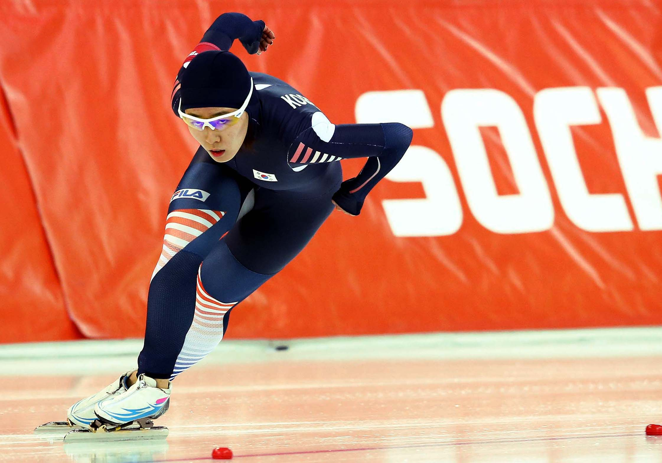 Lee Sang-hwa won Korea’s first gold medal in Sochi.